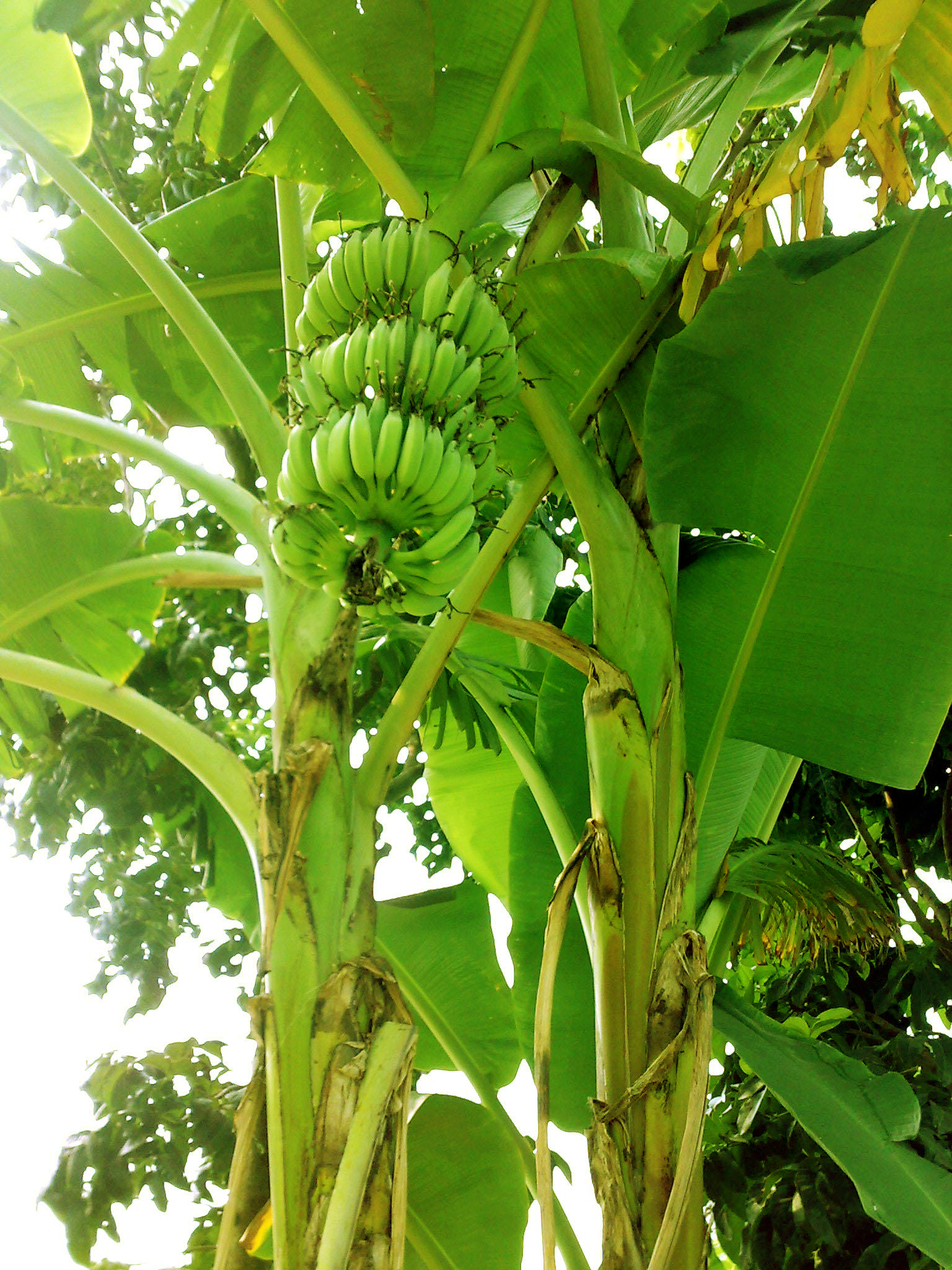 Banana tree in Khulna district, Bangladesh.